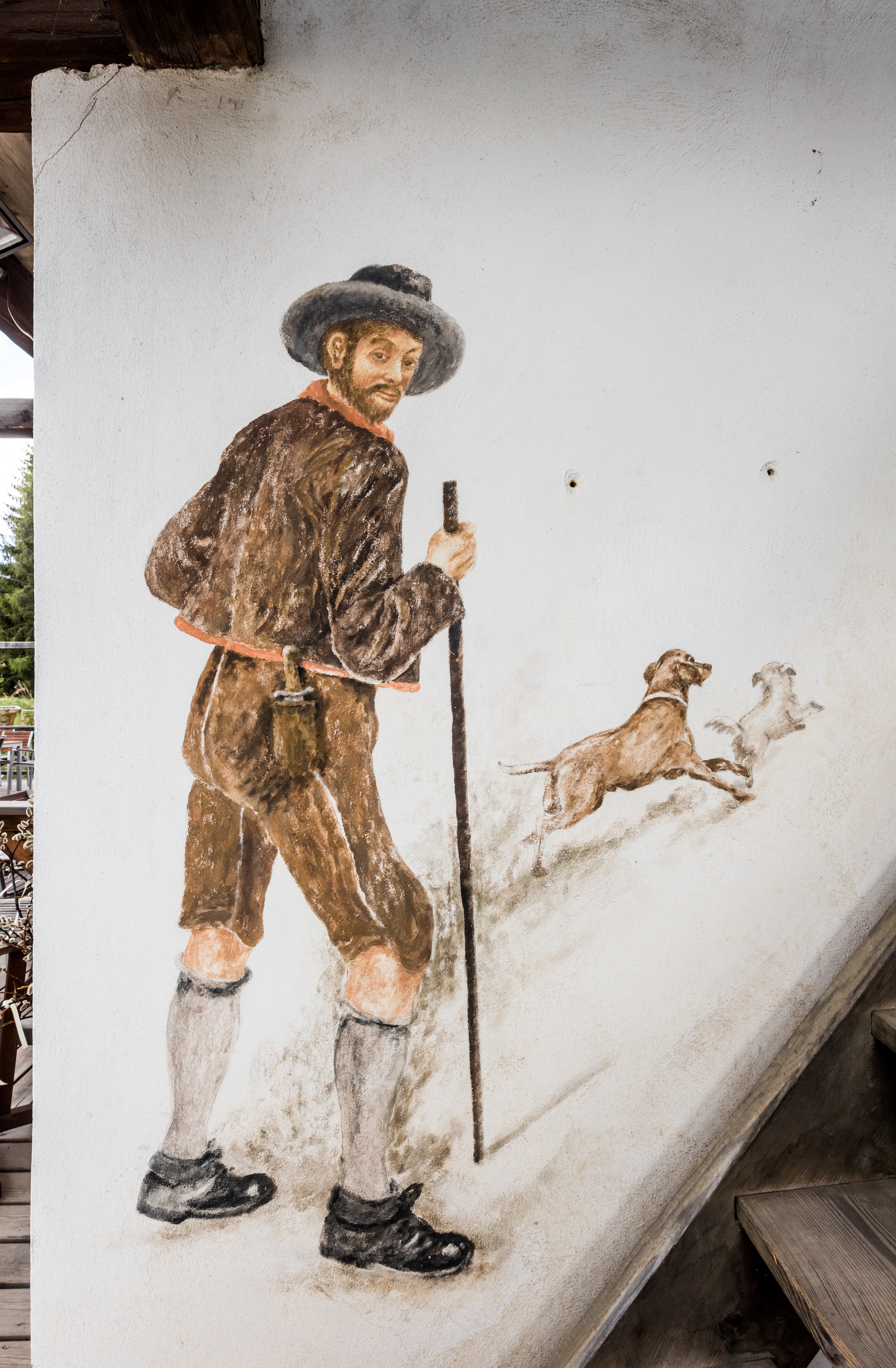 Wall painting of Simon Kramer at the restaurant «Simale» in Kreuth #12, municipality Frauenstein, district St. Veit an der Glan, Carinthia, Austria, EU